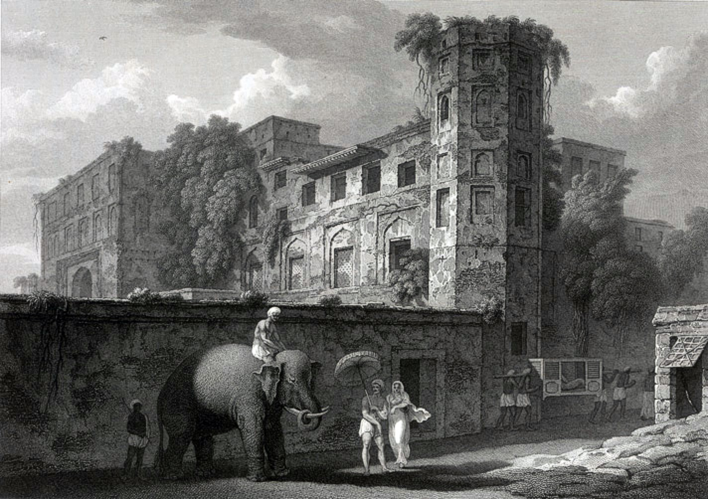 The Great Kuttra; an etching by Sir Charles D'Oyly, 1823